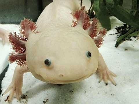 An axolotl in captivity